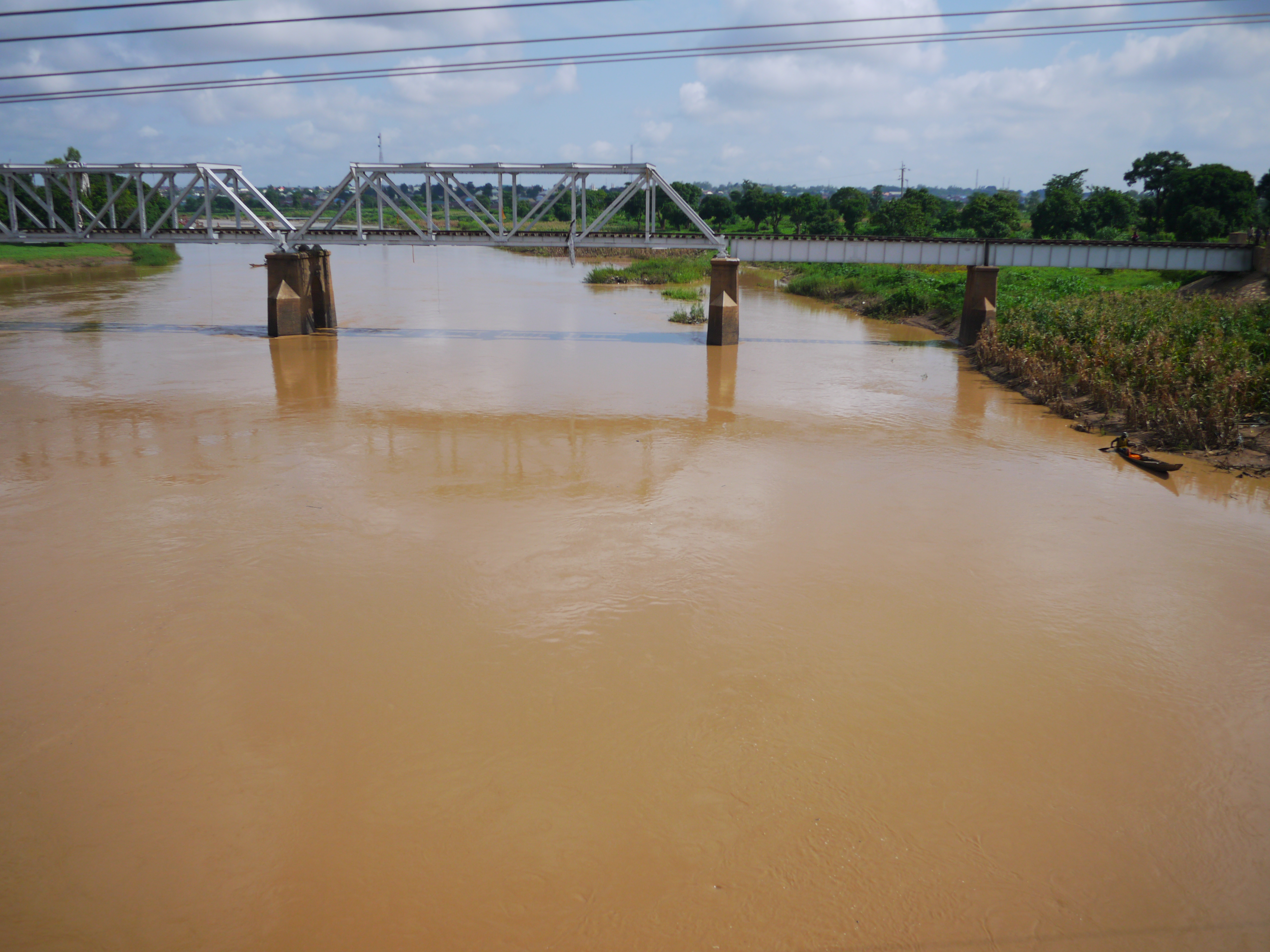 A view of the River Kaduna featuring the old railway bridge [Kaduna State]